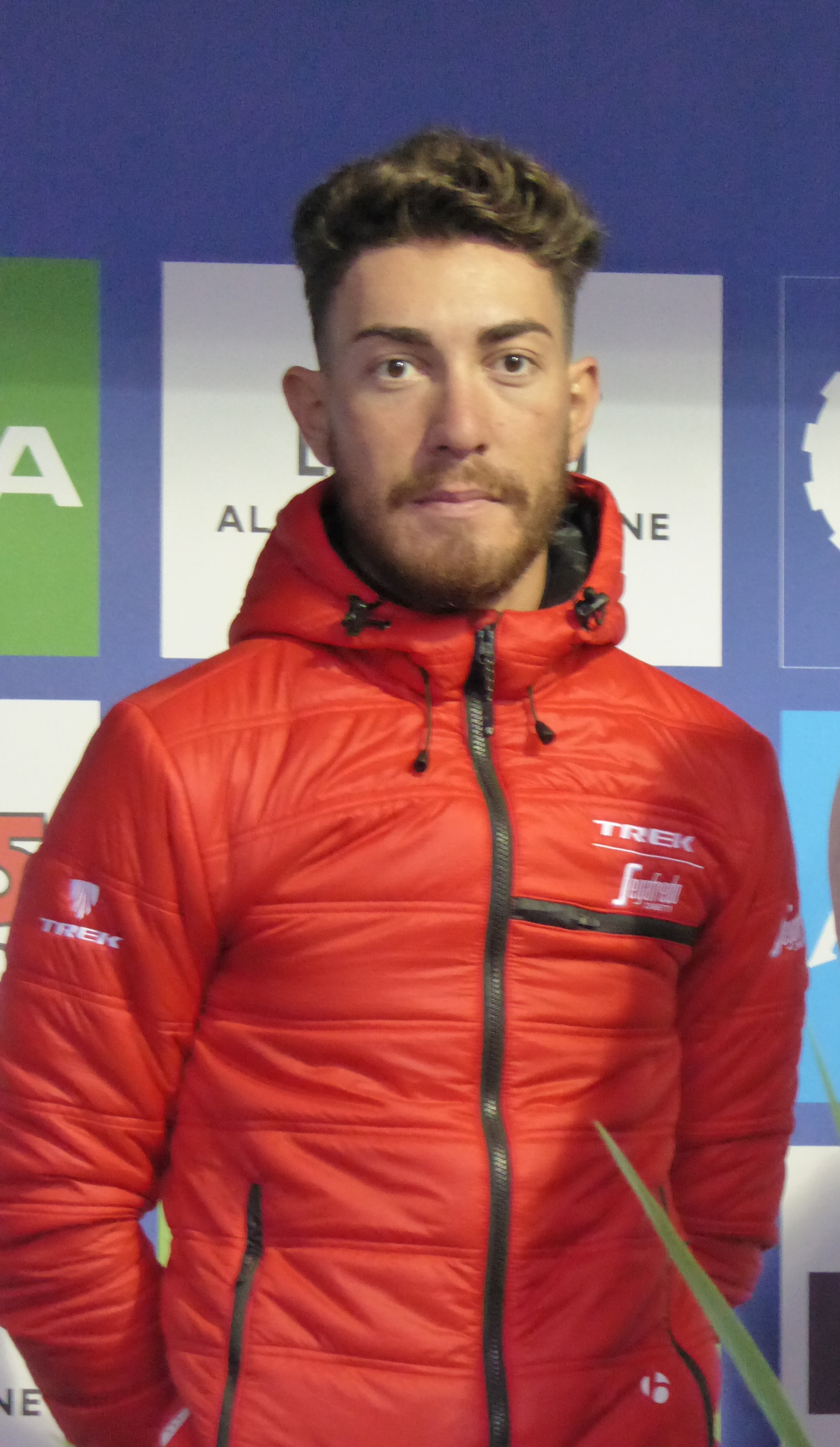 Giacomo Nizzolo (Trek-Segafredo), pictured at the 2016 Tour of Britain team presentation in Glasgow on 3 September 2016.